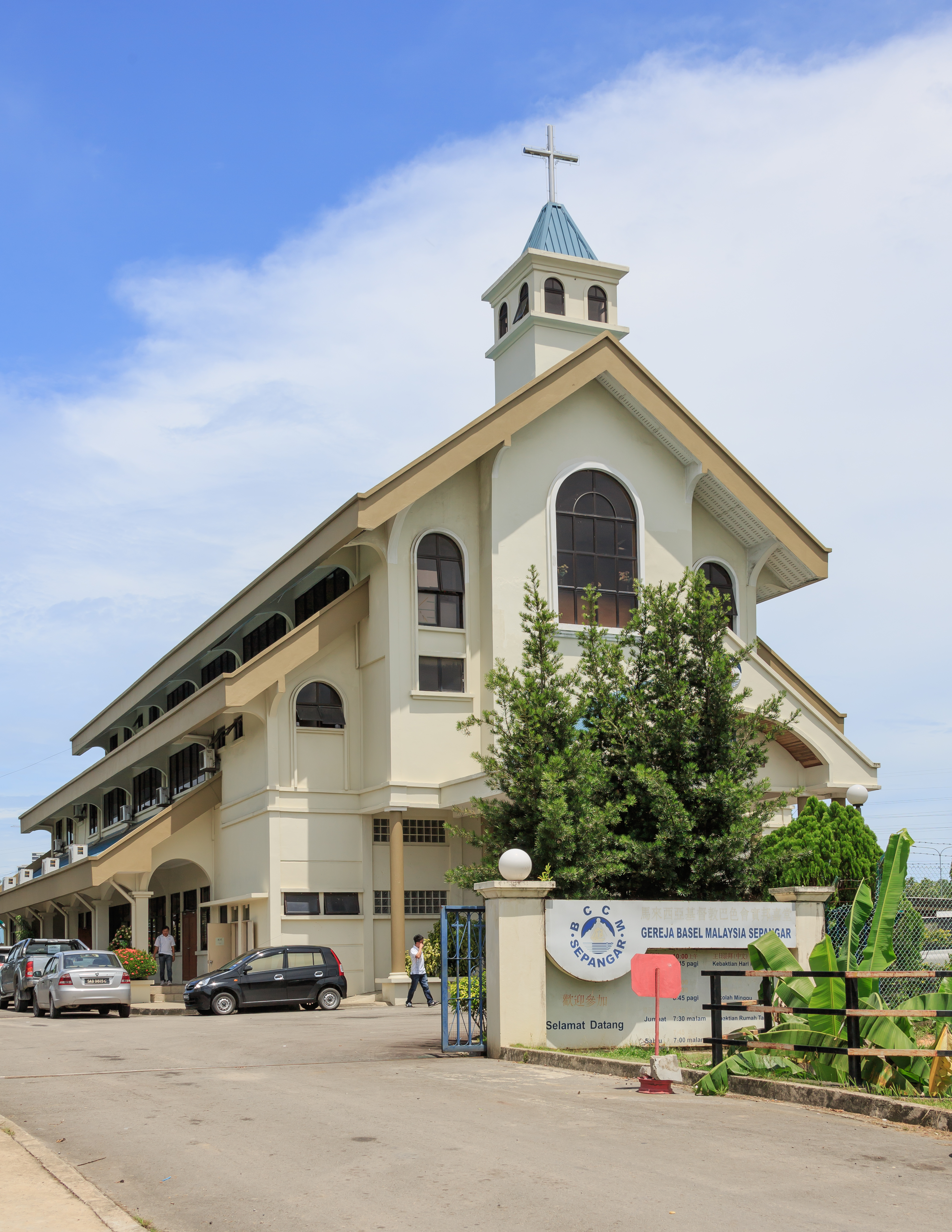 Sepangar, Sabah: BCCM Sepangar (Basel Church of Malaysia)